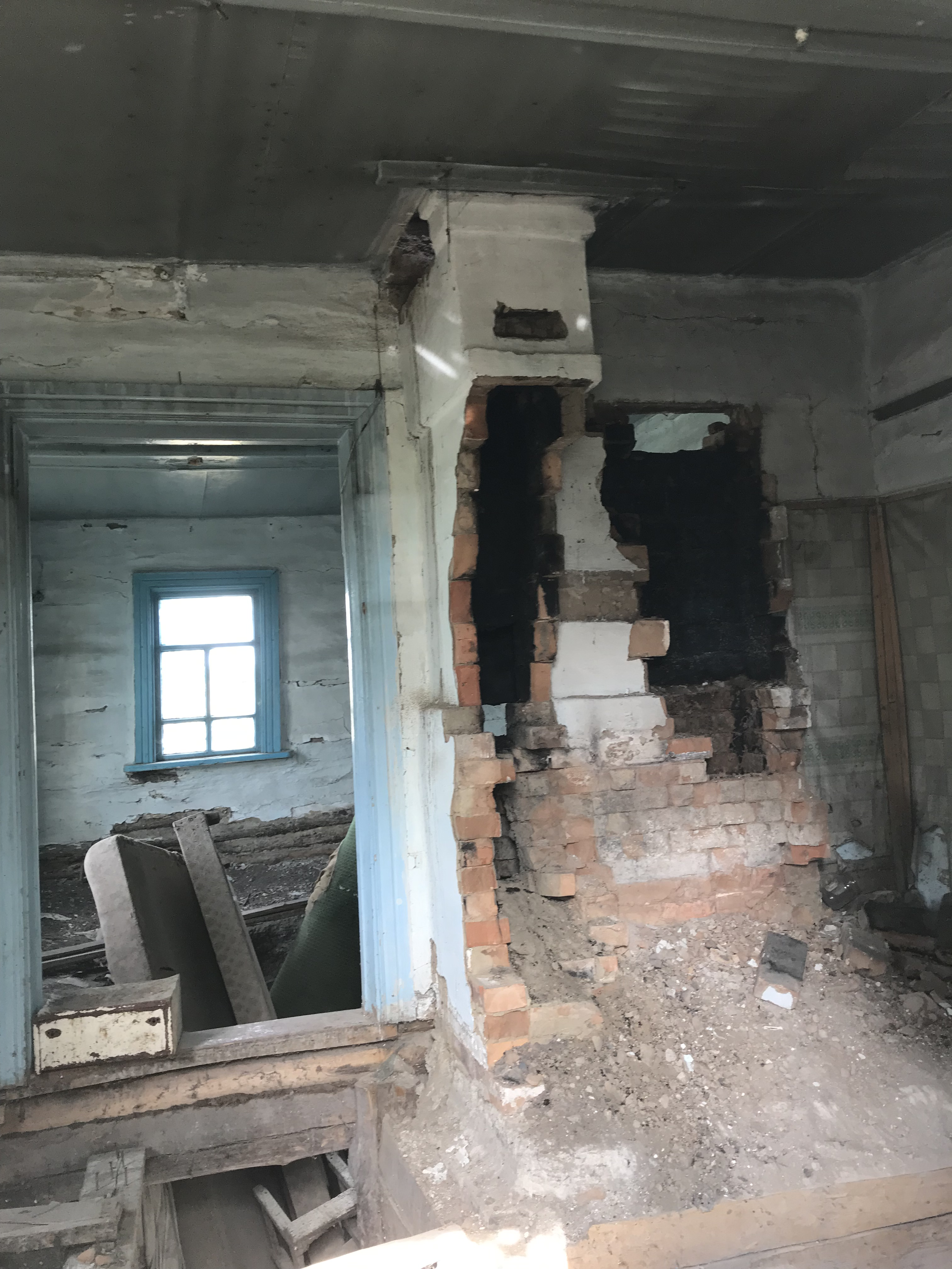 Oravka. House. Interior